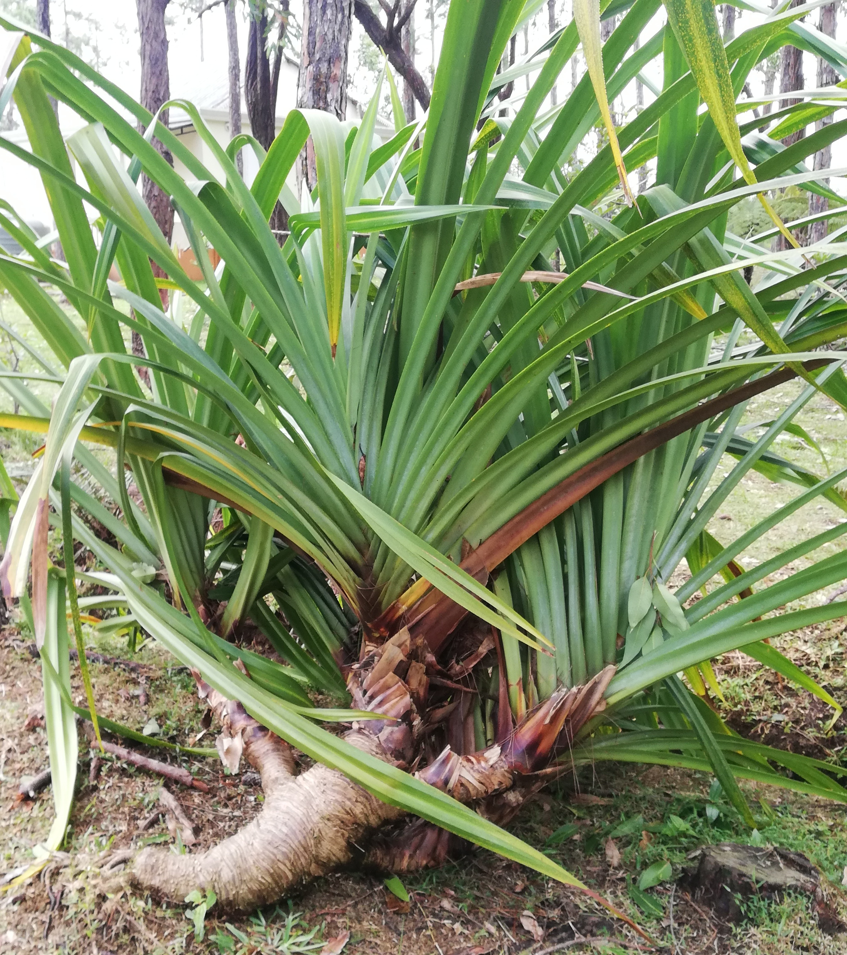 Pandanus glaucocephalus - Petrin